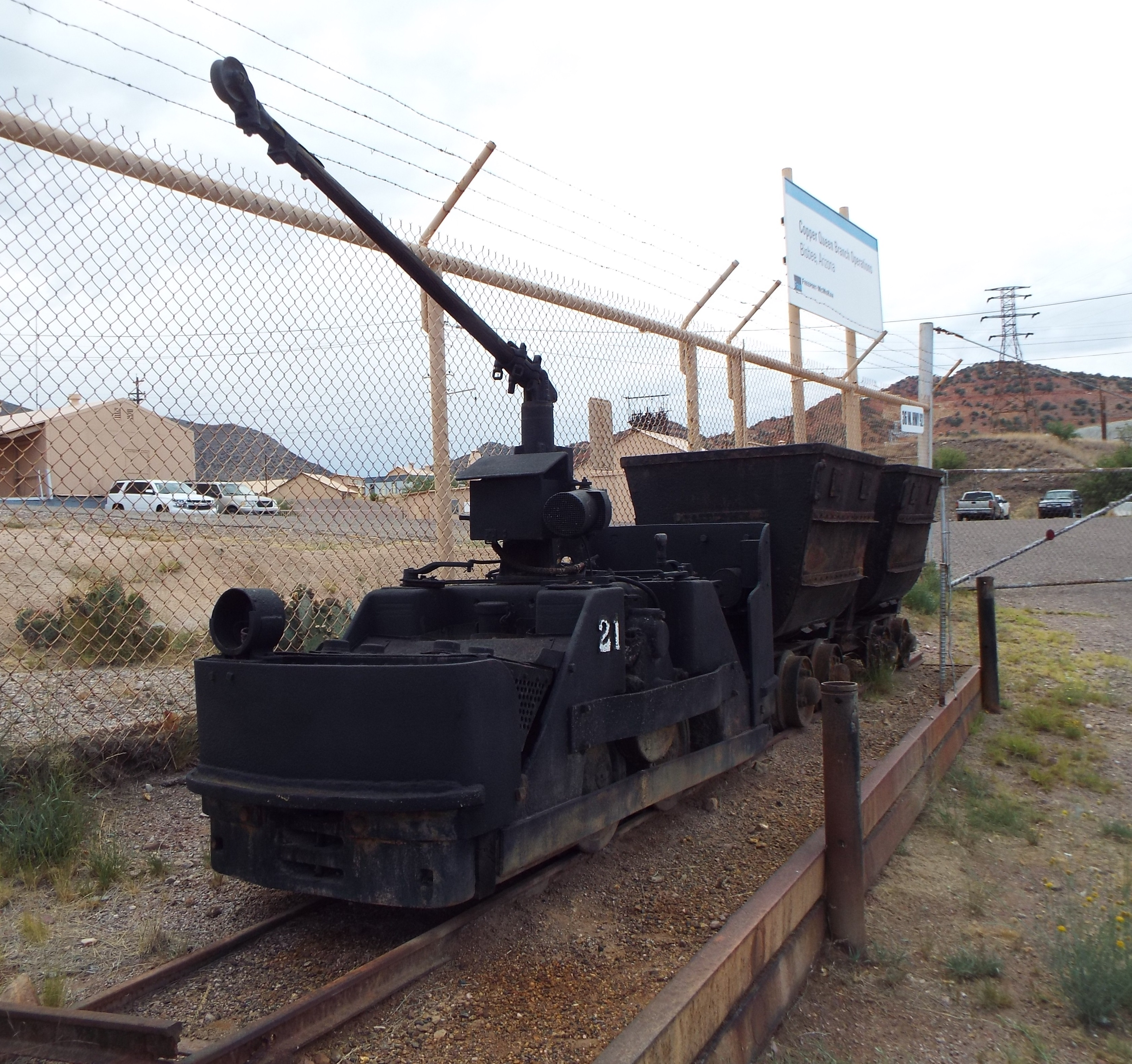 Equipment used in the Copper Queen Mine.in Bisbee, Az